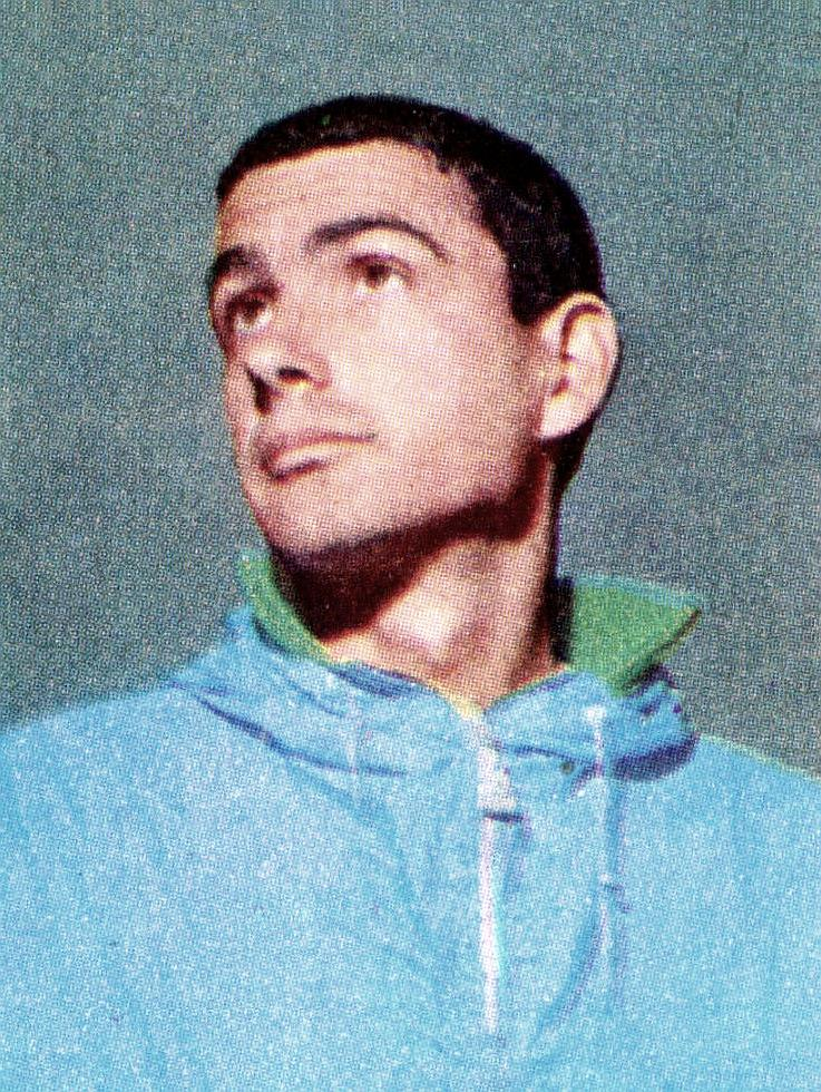 Nuova CAMPIONI DELLO SPORT 1967/68 Figurina/Sticker -n. 44 - RON CLARKE -New